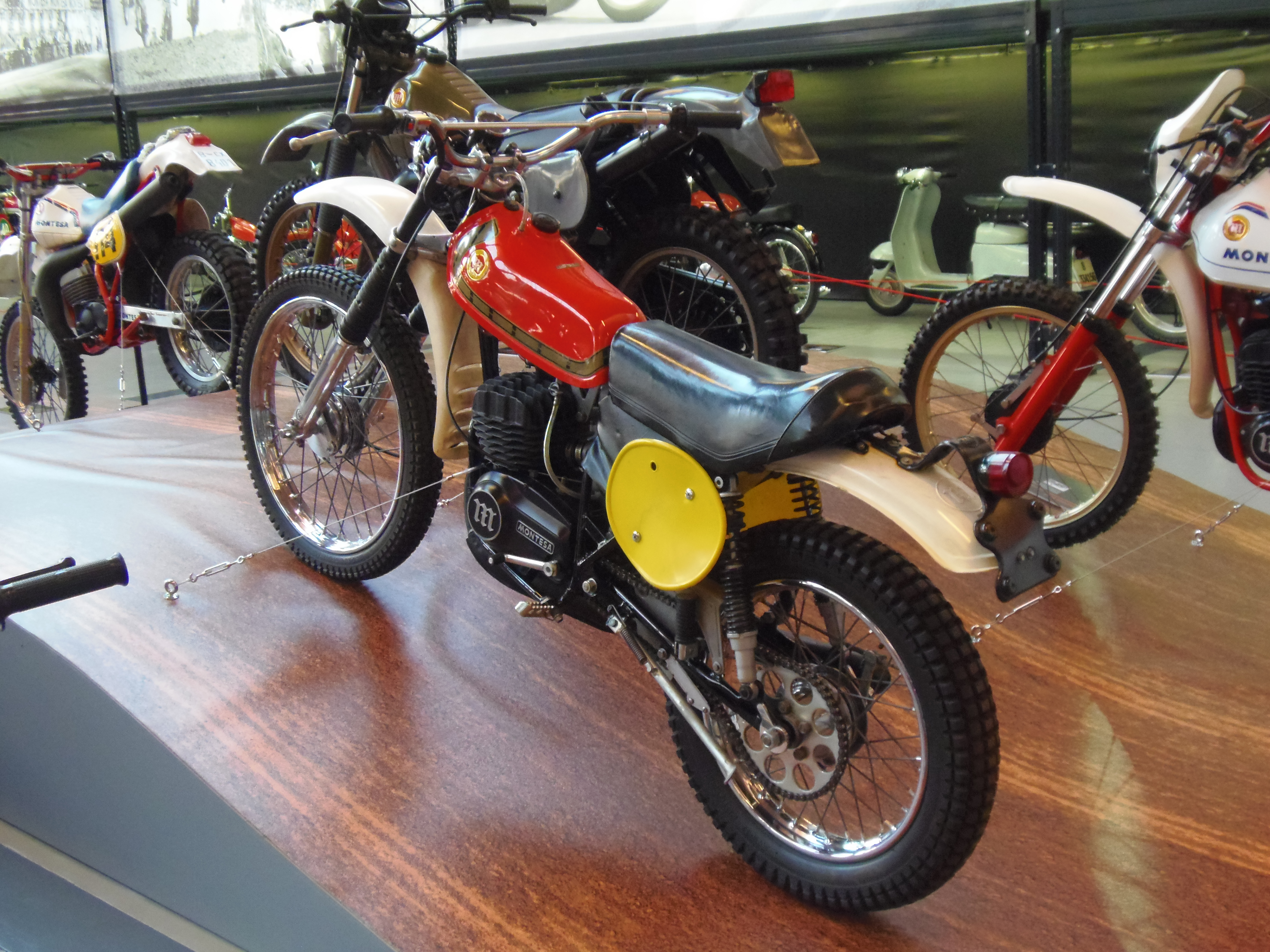 Montesa Enduro 75 L, 1976